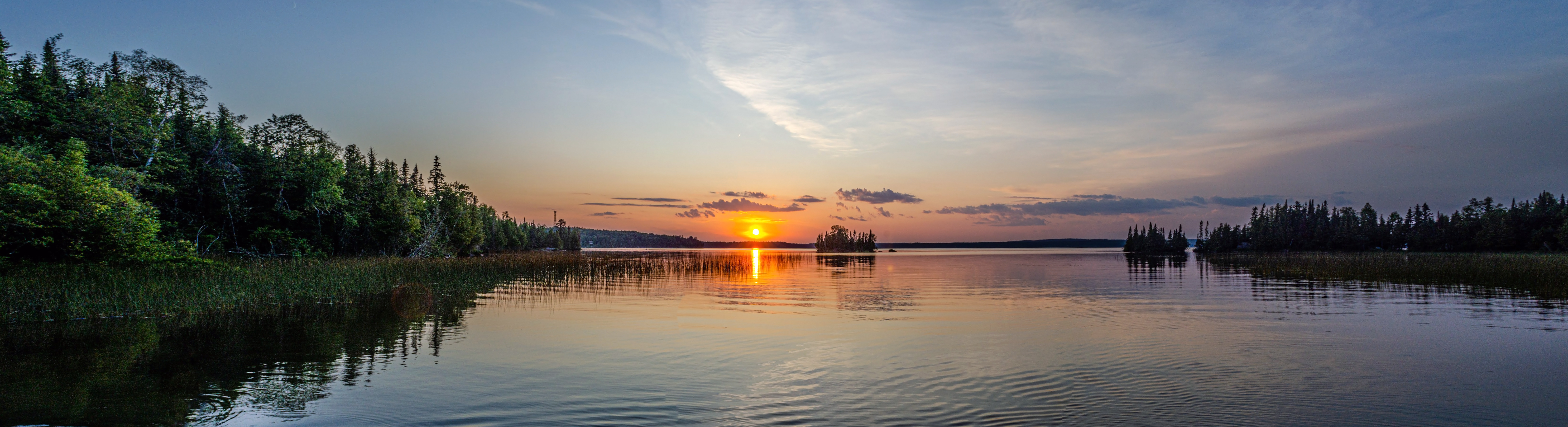 A marsh lake surrounded by boreal forest in Canada.